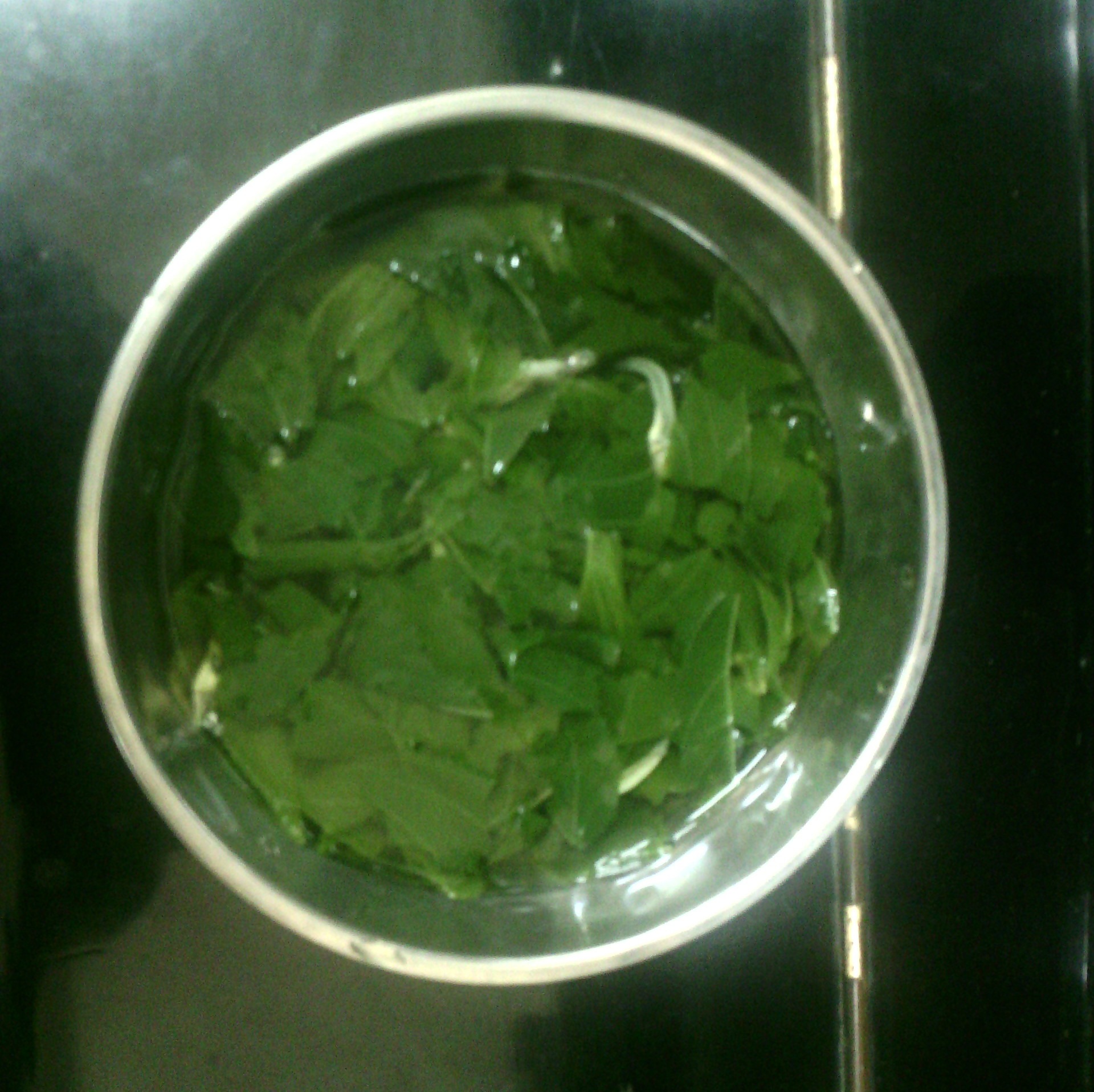 a bowl of oup of tender leaves of jute, a kind of Taiwanese food of Taichung. Bân-lâm-gú: Tâi-oân--è moâ-íⁿ thng.（台灣的麻穎湯。）